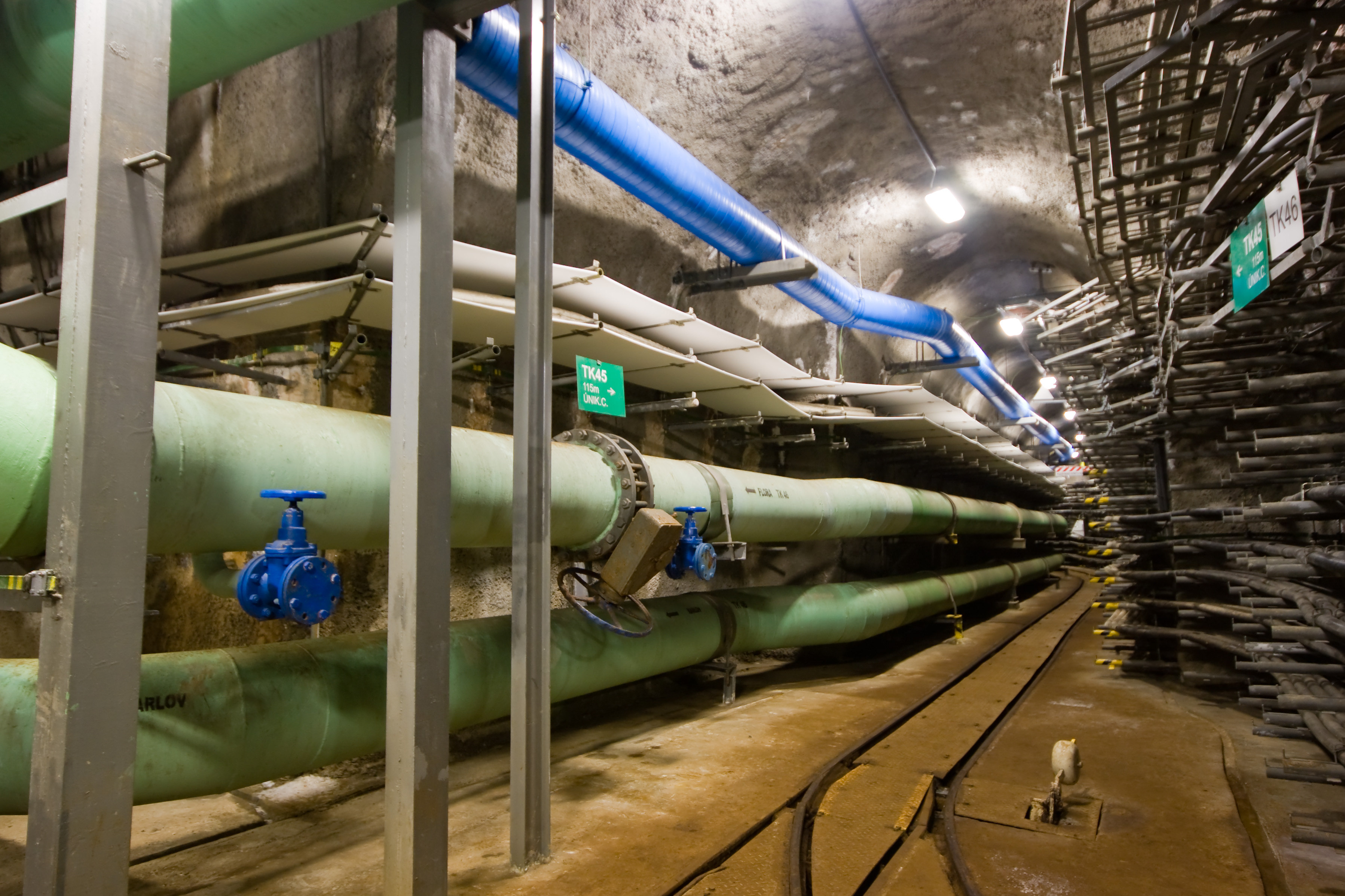 Utility tunnels Prague, Prague Tato série fotografií vznikla za laskavého svolení společnosti Kolektory Praha